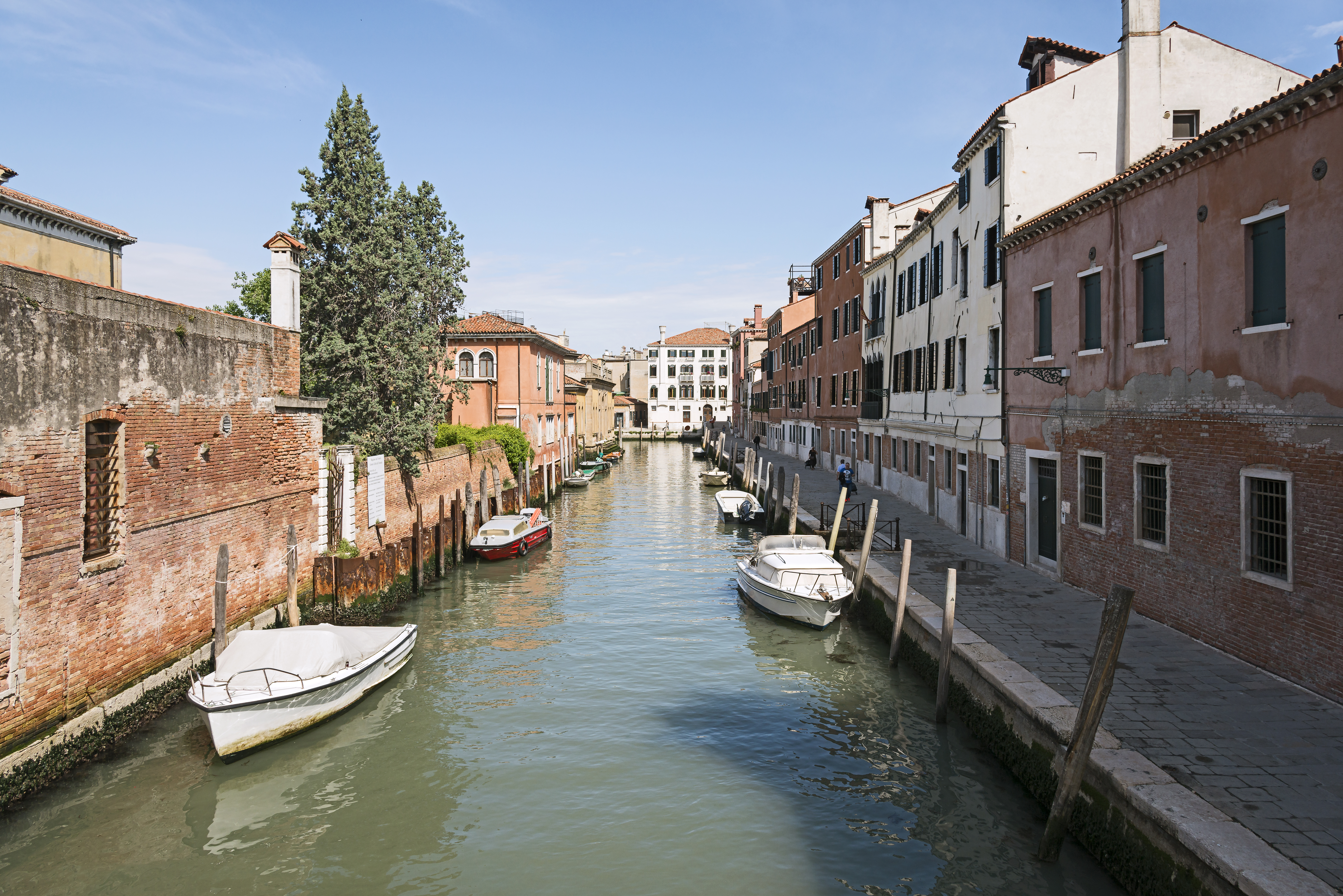 Rio Briati in Venice. The rio in its entirety, Viewed from Briati bridge.